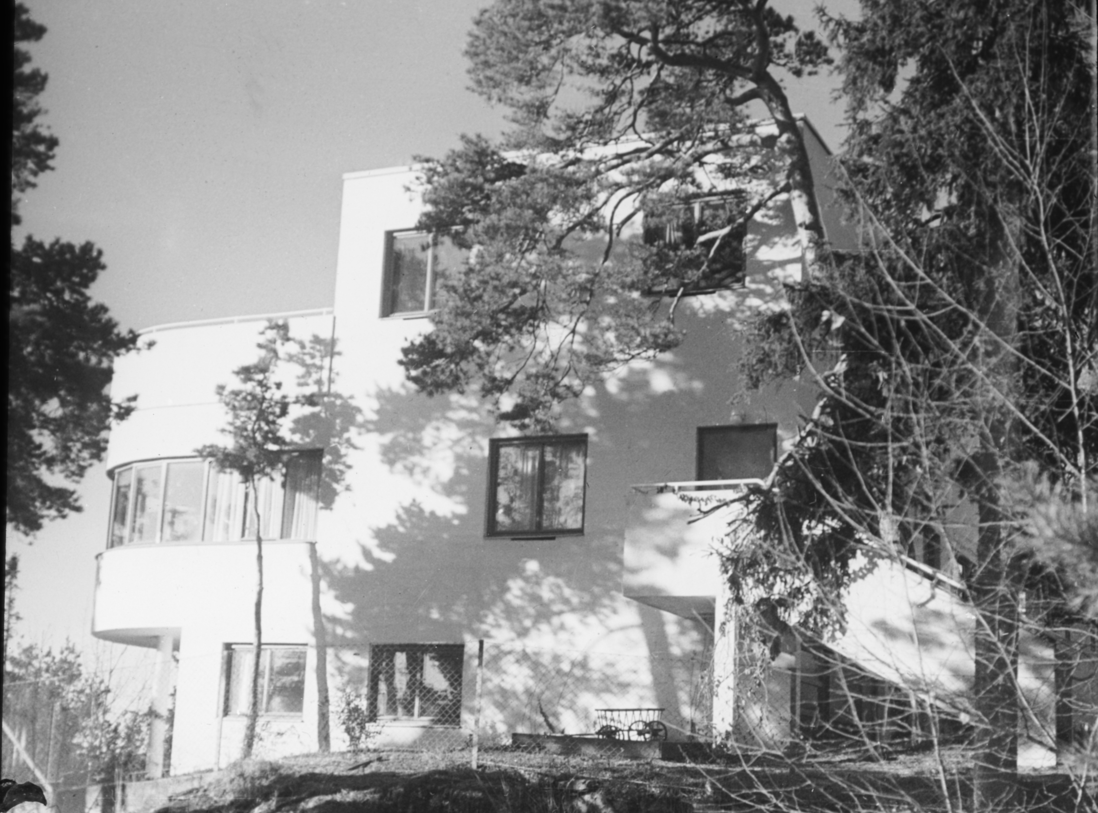 Villa Markelius, Grönviksvägen 133, Nockeby, Bromma. Arkitekt till sin egen villa var Sven Markelius (1889-1972). Ingår i samling: Tekniska museets arkiv. Ägare av samling: Tekniska museet, Institution: Tekniska museet.